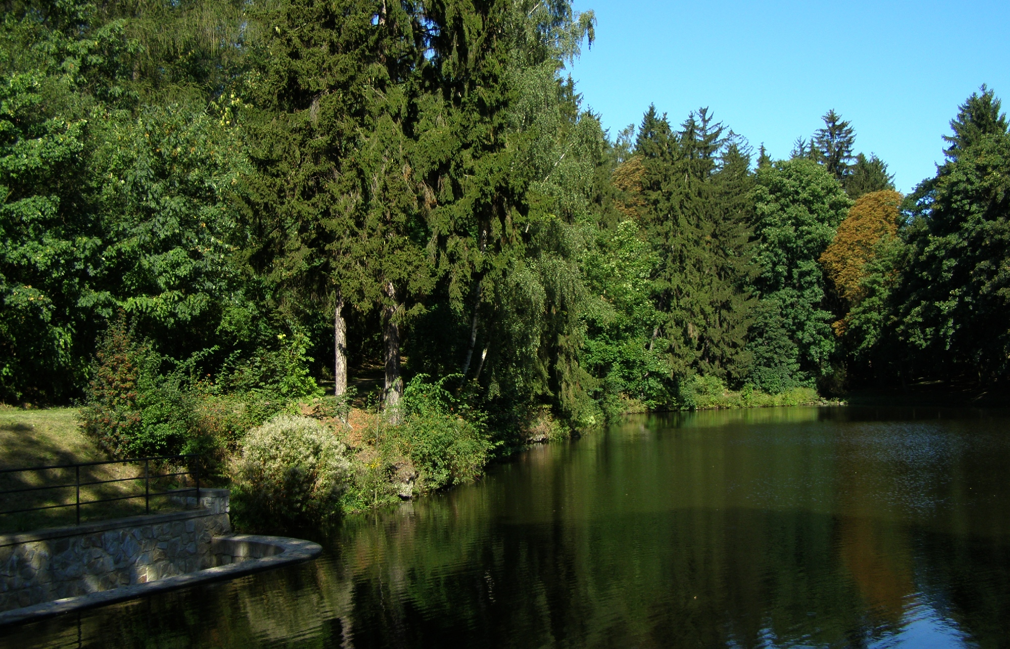 Třebíč-Týn. Týn valley. Vodovodní pond